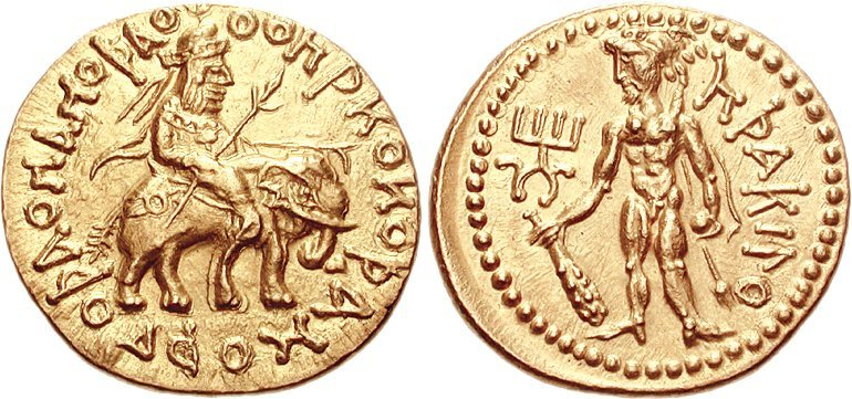 INDIA, Kushan Empire. Huvishka. Circa AD 152-192. AV Dinar (7.99 g, 12h). Mint B. 1st emission. PAOhAhOPAO OOhPKI KOPANO (first and second h retrograde), diademed and crowned Huvishka riding an elephant right, holding trident in right hand, goad in left / ΗΡΑΚΙΛΟ (Herakles) standing left, wearing lion skin, holding club in right hand, Apple of the Hesperides in left; tamgha to left.